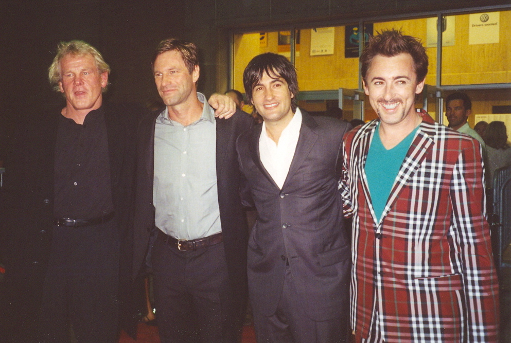 Nick Nolte, Aaron Eckhart, not sure, and Alan Cumming here to promote Neverwas at the 2005 Toronto Film Festival